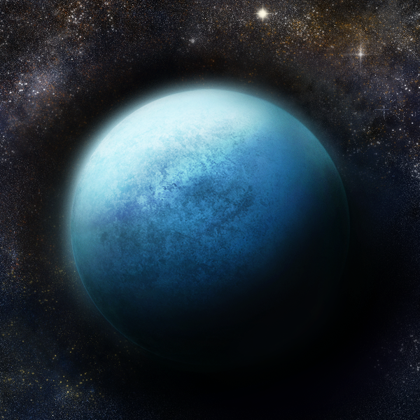 An artist impression of HD 189733b after the discovery of its blue color by Berdyugina et al. (2011) using polarimetry.